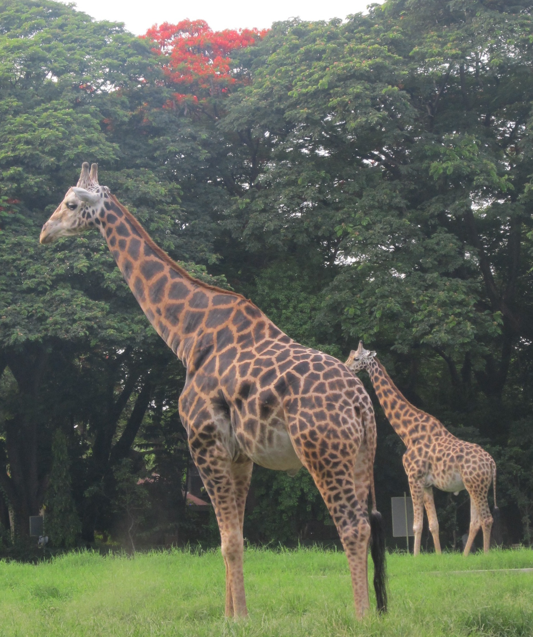 Giraffes as seen in Mysore Zoo, India